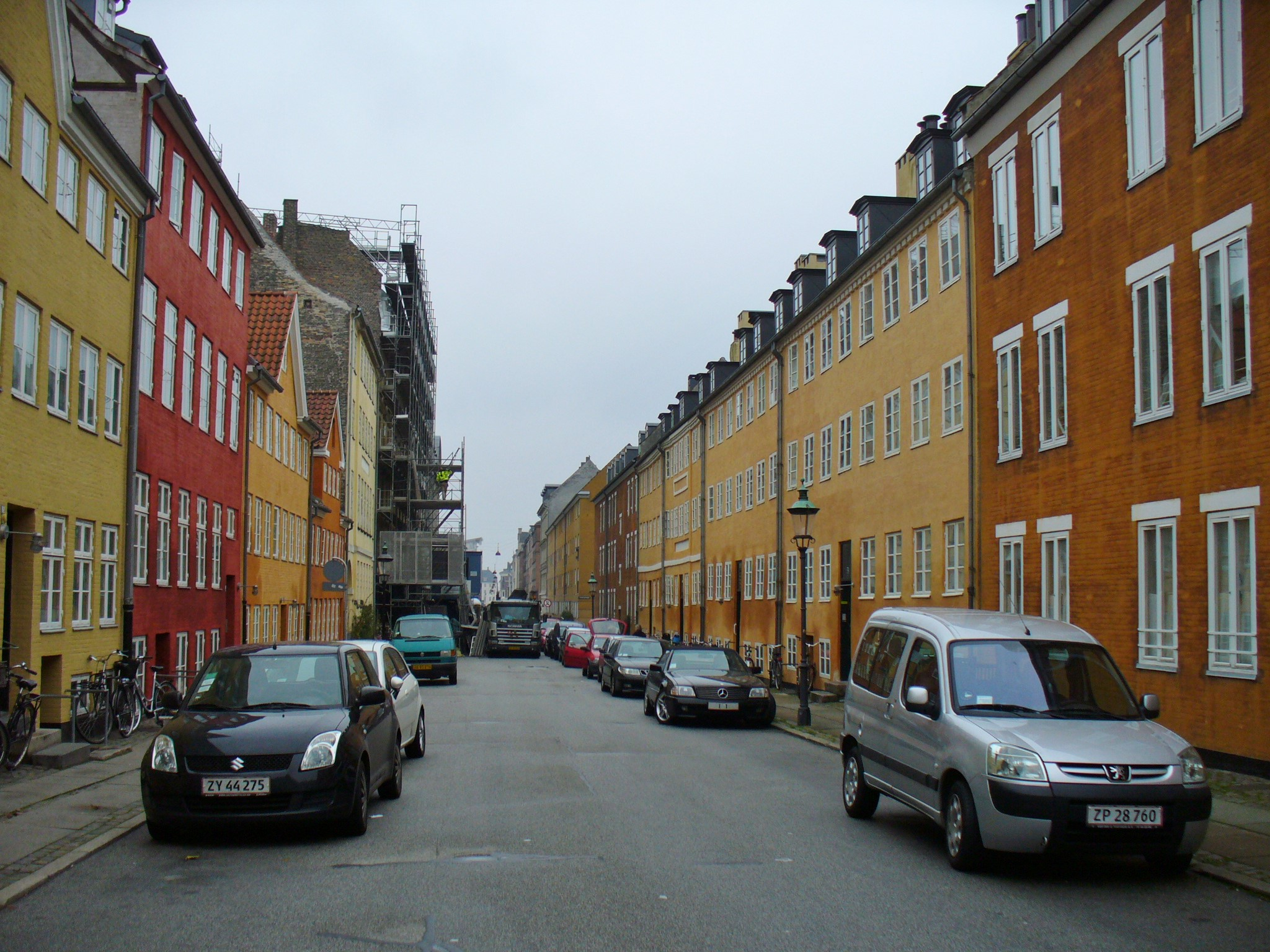 The street Fredericiagade in Indre By in Copenhagen.